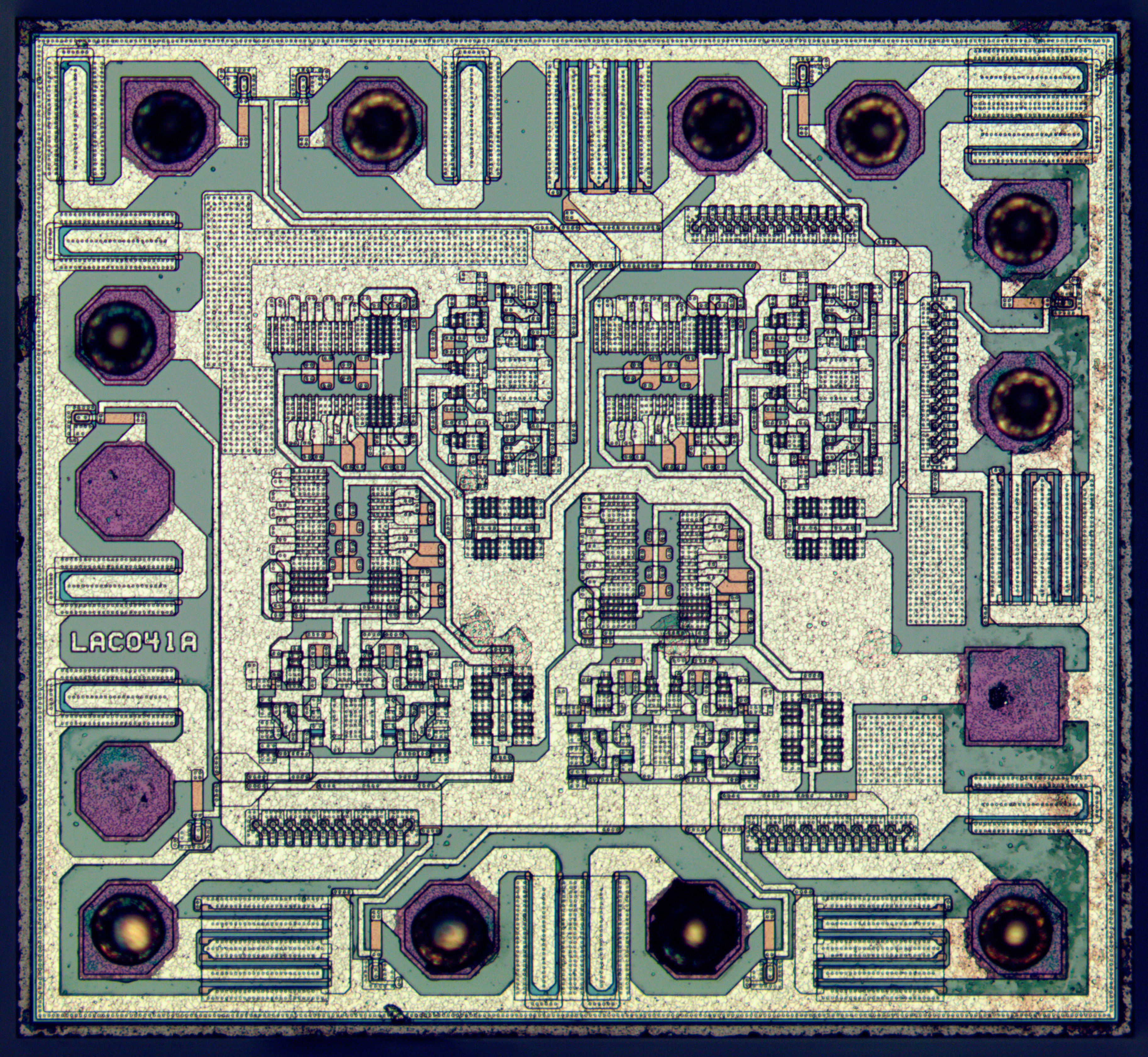 Integrated circuit die photo of a 74AHC00D quad 2-input NAND gate manufactured by NXP Semiconductors.